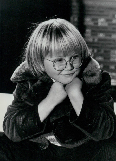 Photo of Robbie Rist as Cousin Oliver from the television program The Brady Bunch.